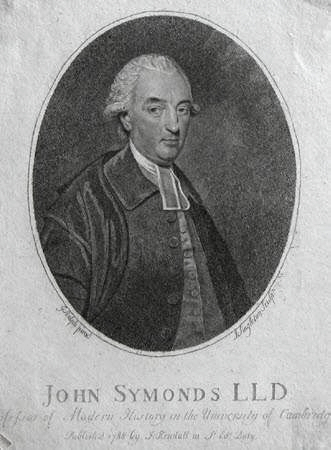 Portrait of John Symonds (1730–1807), professor of modern history at the University of Cambridge.